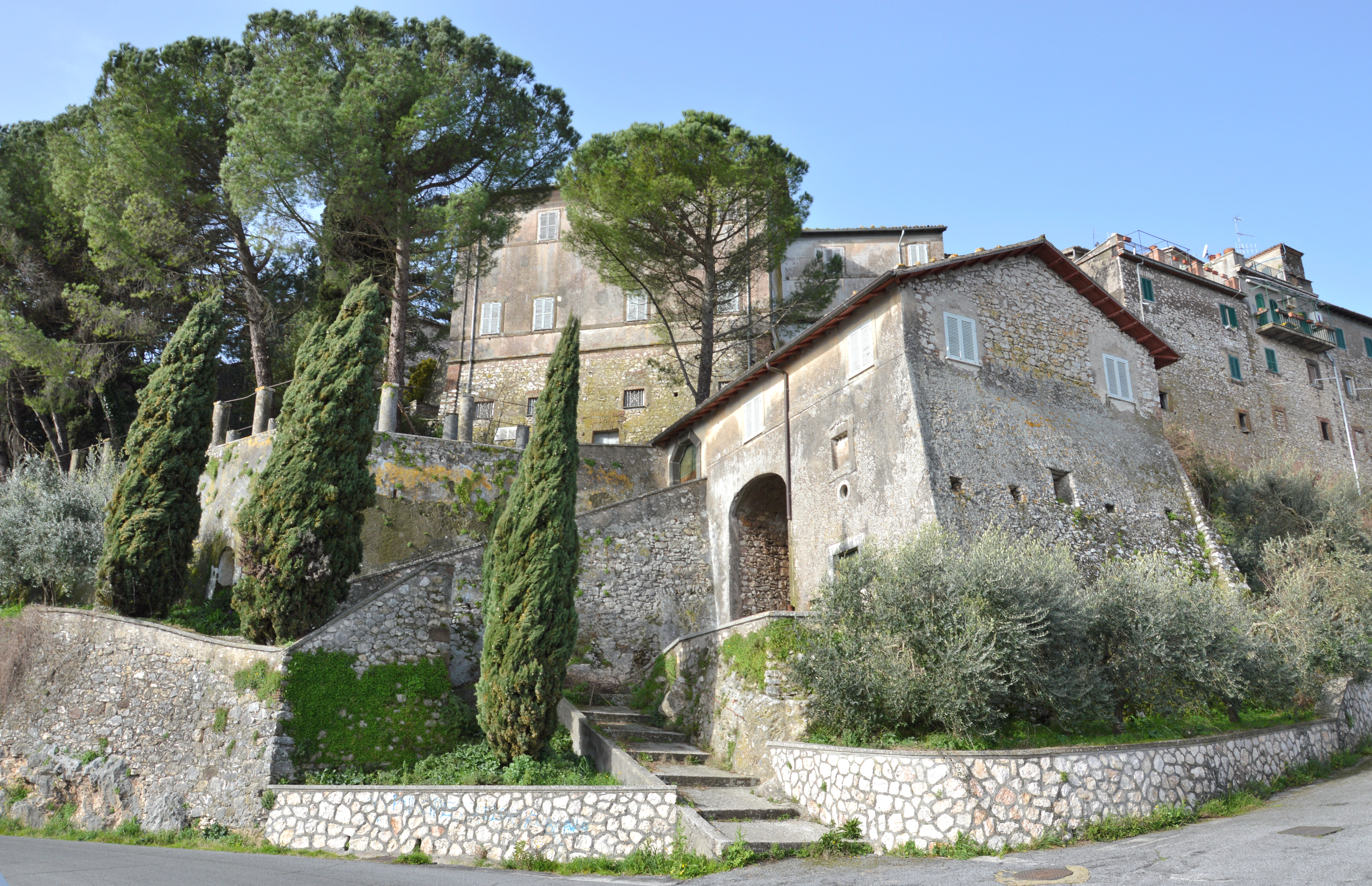 Gavignano (Rm)